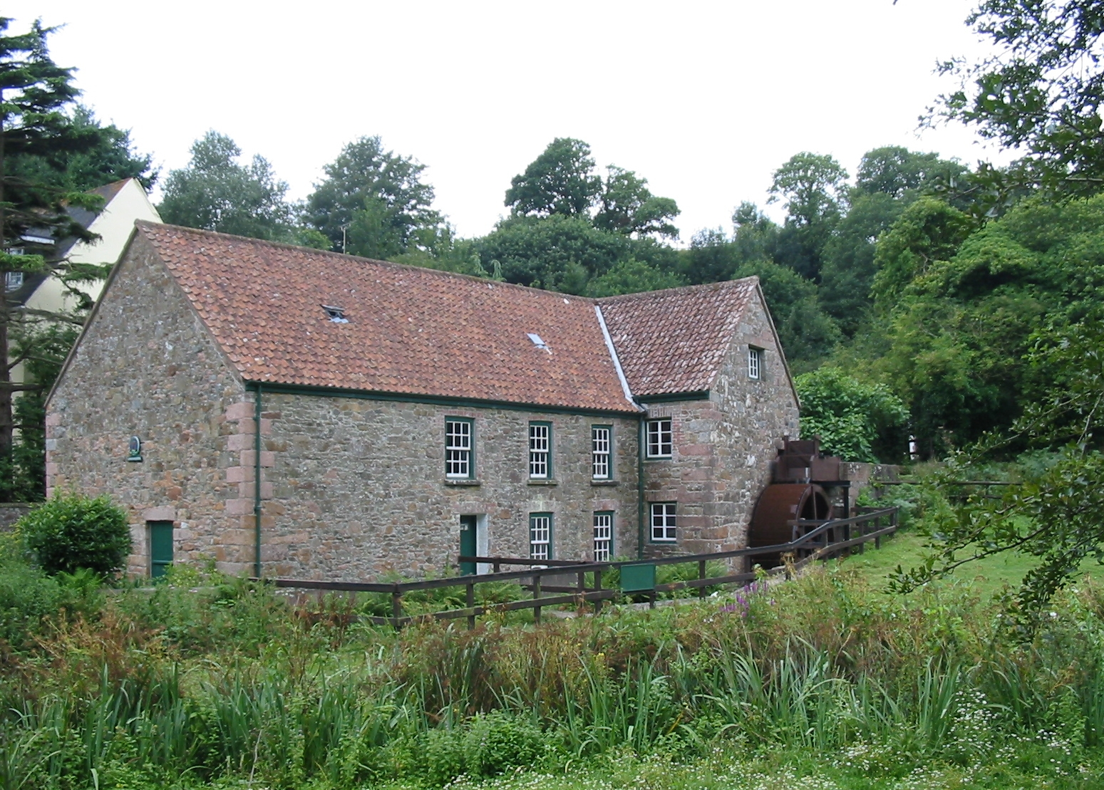 Le Moulin de Quétivel in Jersey, a watermill conserved by the National Trust for Jersey.